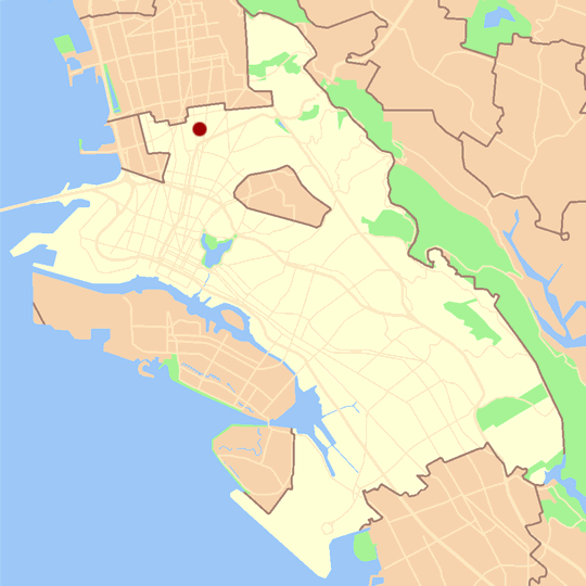 Uploading map of bushrod park based on maps by User:Nogood. Blank map can be found at Image:Oakland_blank_locator_map.png